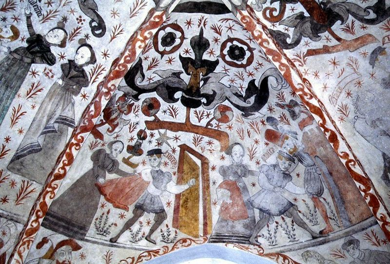 Sejerø Kirke (church)